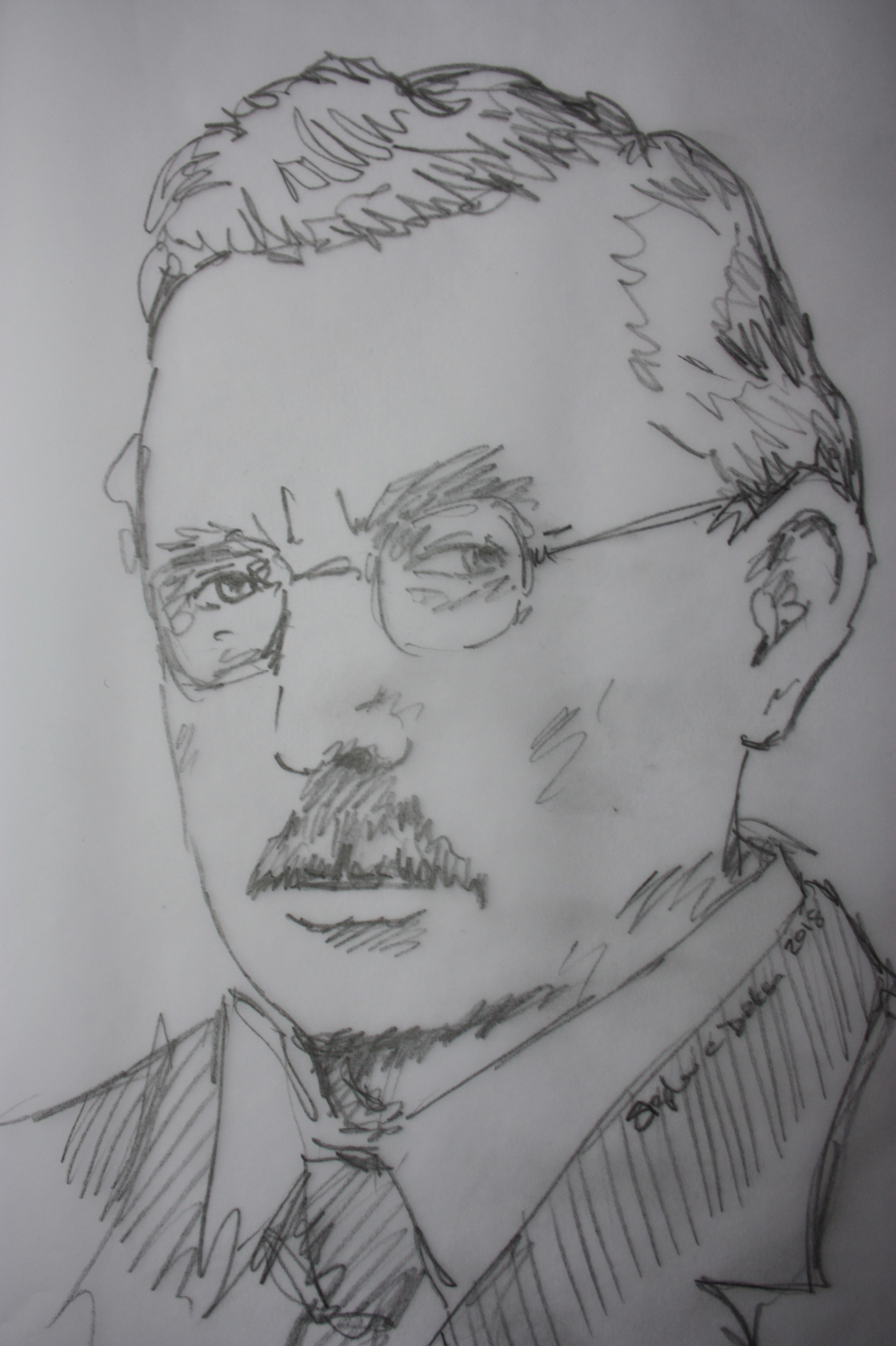 Arthur Henry Havens Sinclair by Stephen C Dickson